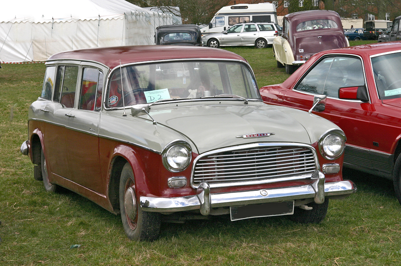 Humber Hawk Series I Estate. The Hawk (and Humber Super Snipe) were available with a large Estate Car body to make a very capacious load carrier.